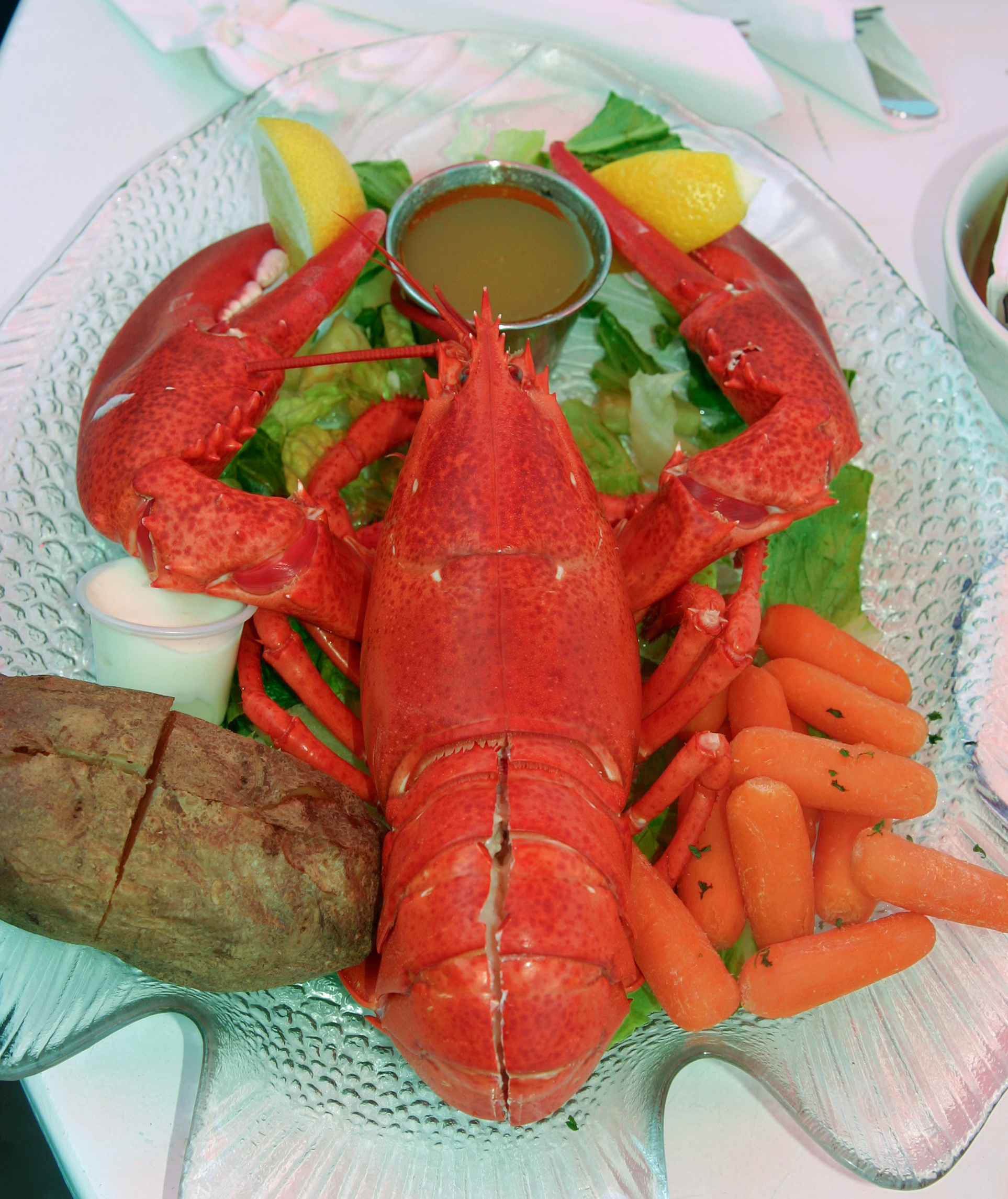 Lobster meal, Digby, Nova Scotia, Canada